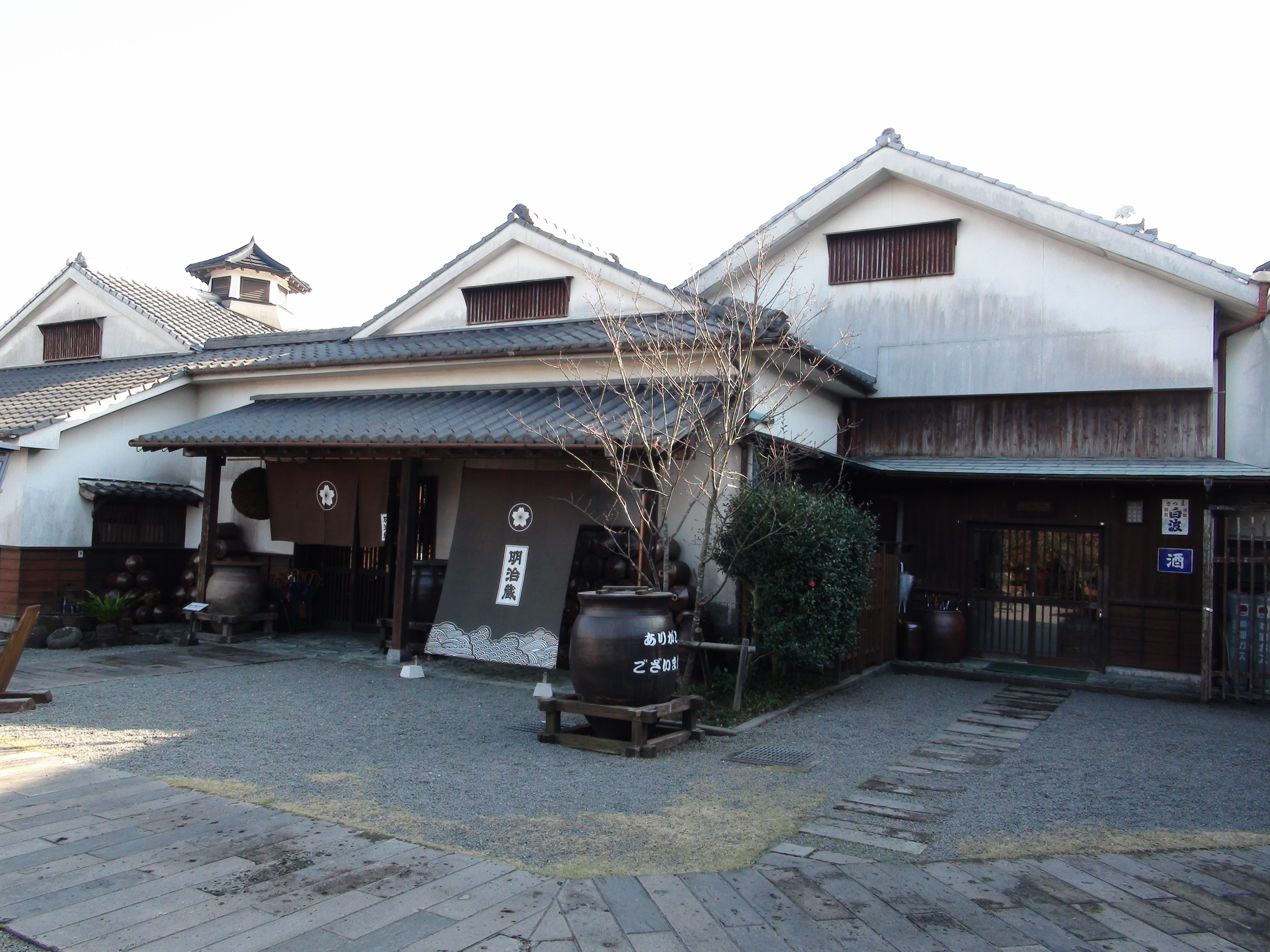 Satsuma Shuzo's Kedogawa Shochu factory and museum, Meijigura, Makurazaki, Kagoshima